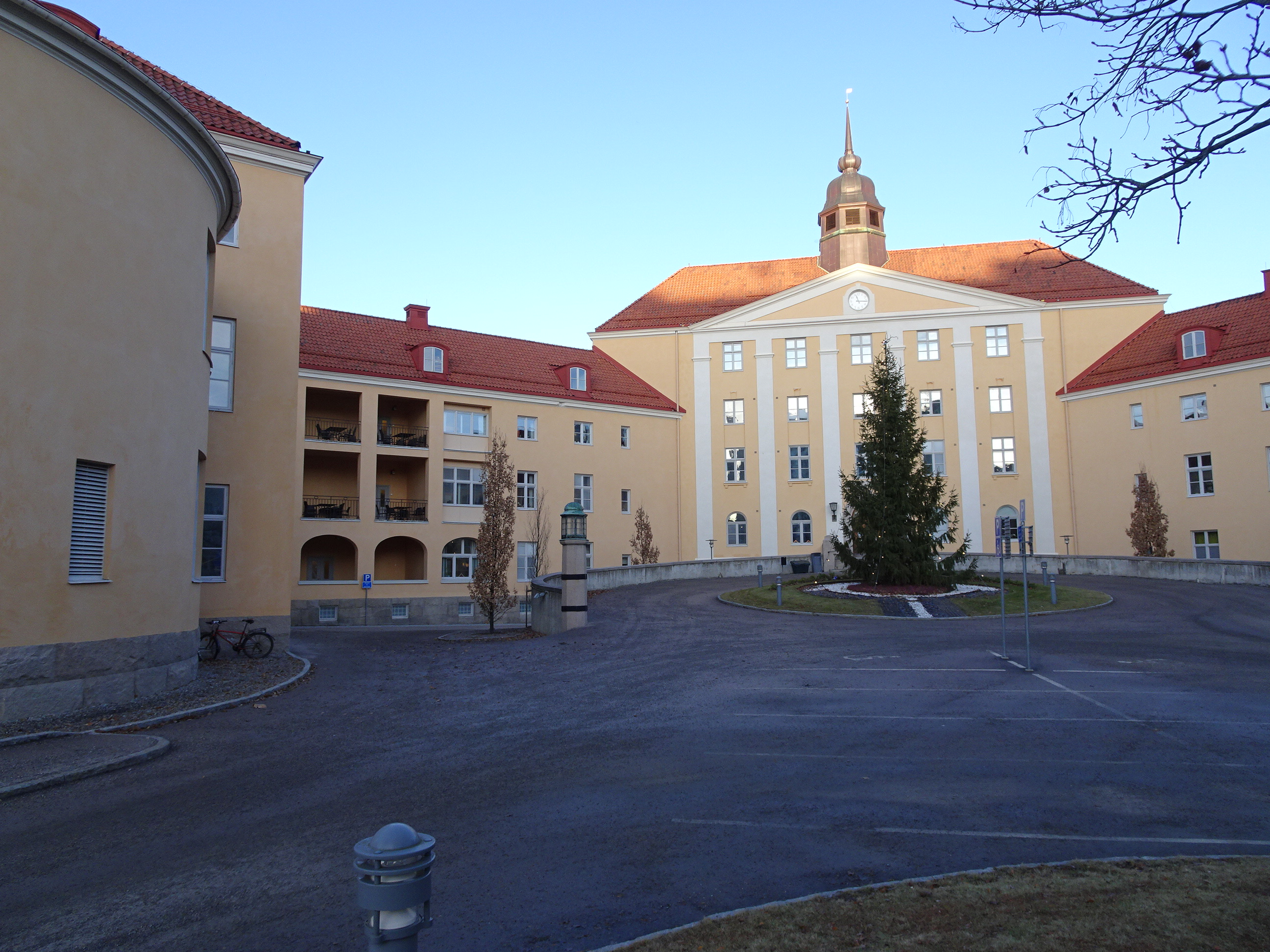 Västerås central hospital. The old building from 1928.